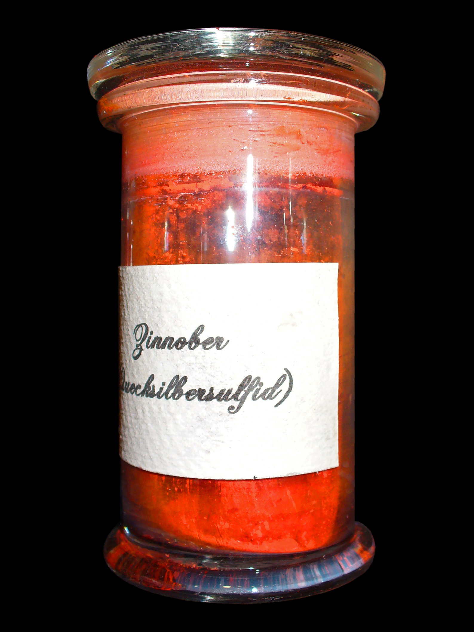 Cinnabar, HgS; Staatliches Museum für Naturkunde Karlsruhe, Germany. Used in homeopathy as remedy: Cinnabaris (Cinnb.)